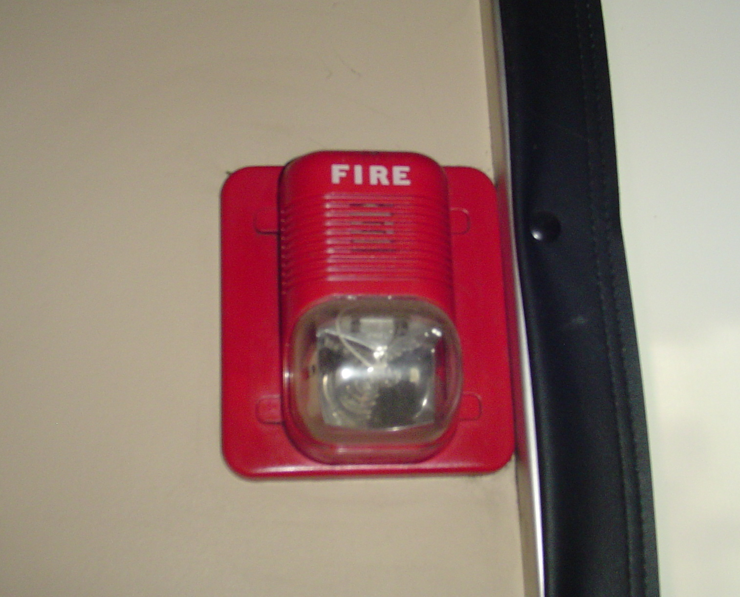 System Sensor SpectrAlert horn/strobe